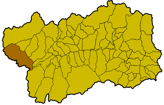 Map showing location of La Thuile, Valle d'Aosta